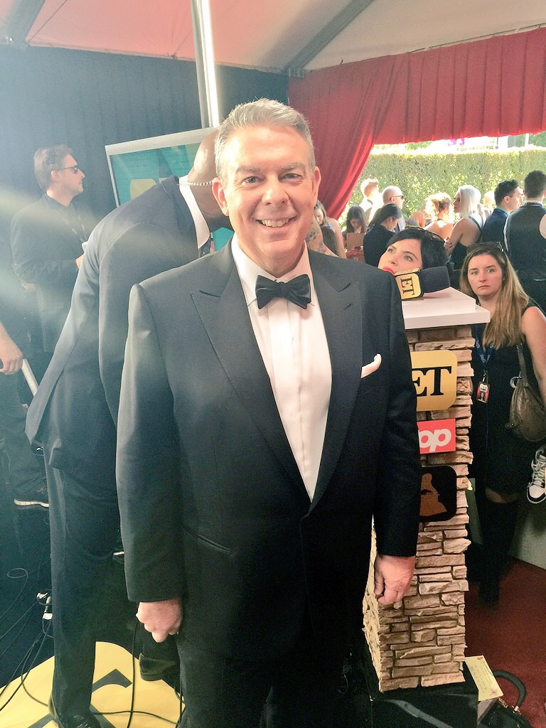 Elvis Duran at 57th Annual Grammys